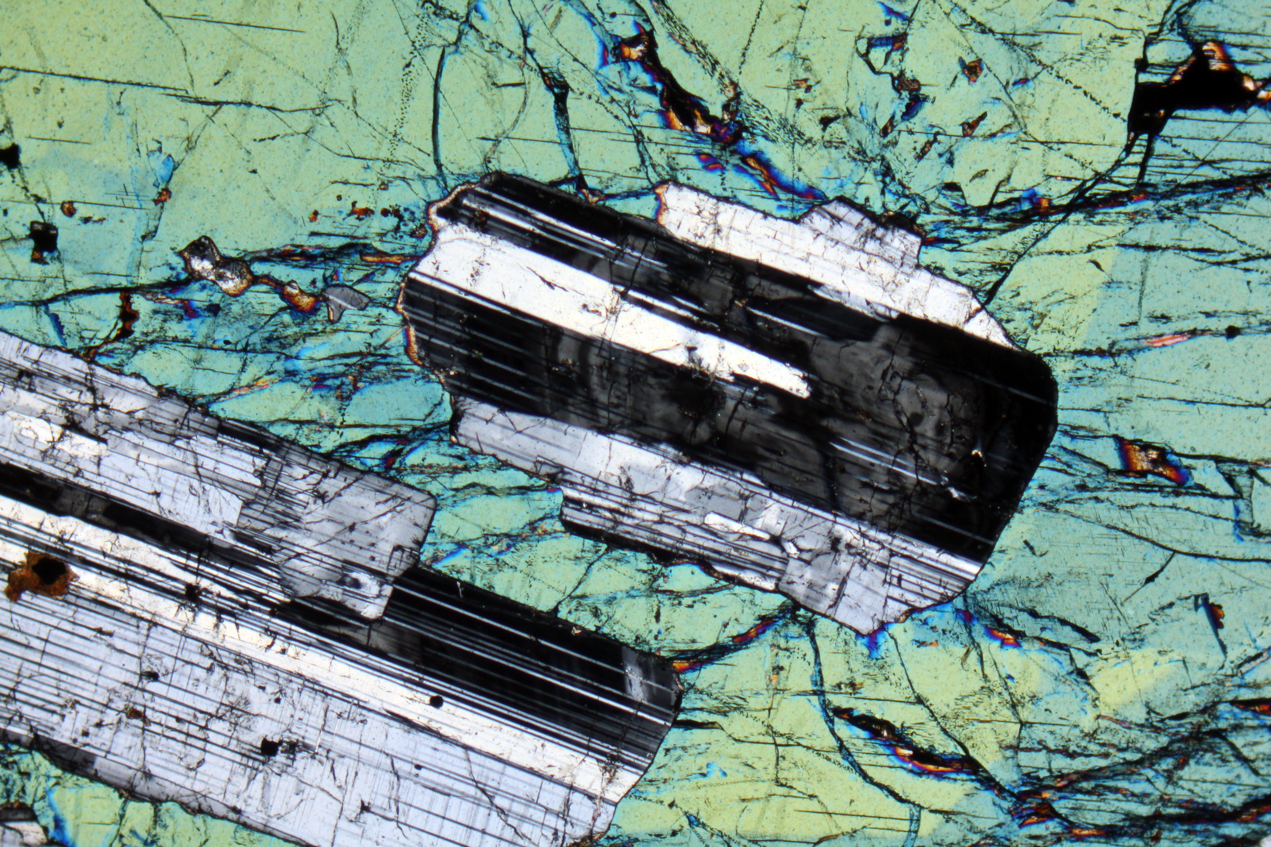 Poikilitic augite with plagioclase inclusions. Poikilitic texture refers to crystals, typically phenocrysts, in an igneous rock which contain small grains of other minerals. Crossed nicols image, magnification 2x (Field of view = 7mm)